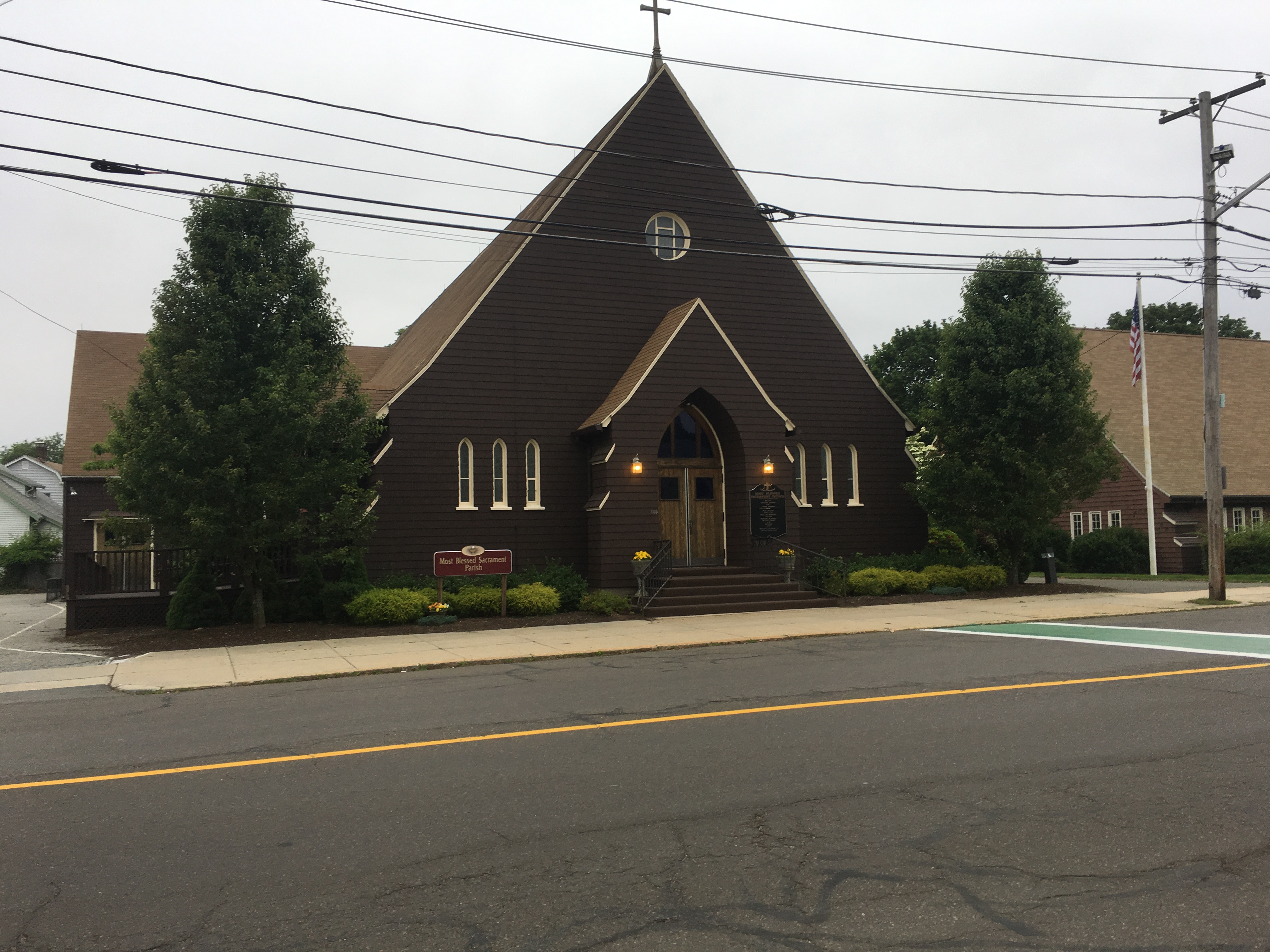 Frontal picture of the Most Blessed Sacrament Church on Main Street in the Greenwood neighborhood of Wakefield, Massachusetts, on June 23, 2018, early evening